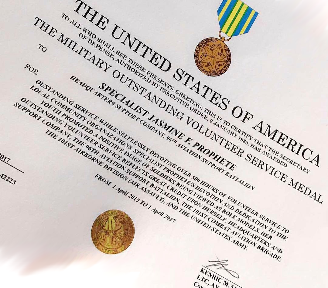 Military Outstanding Volunteer Service Medal for SPC Jasmine F. Prophete, USA